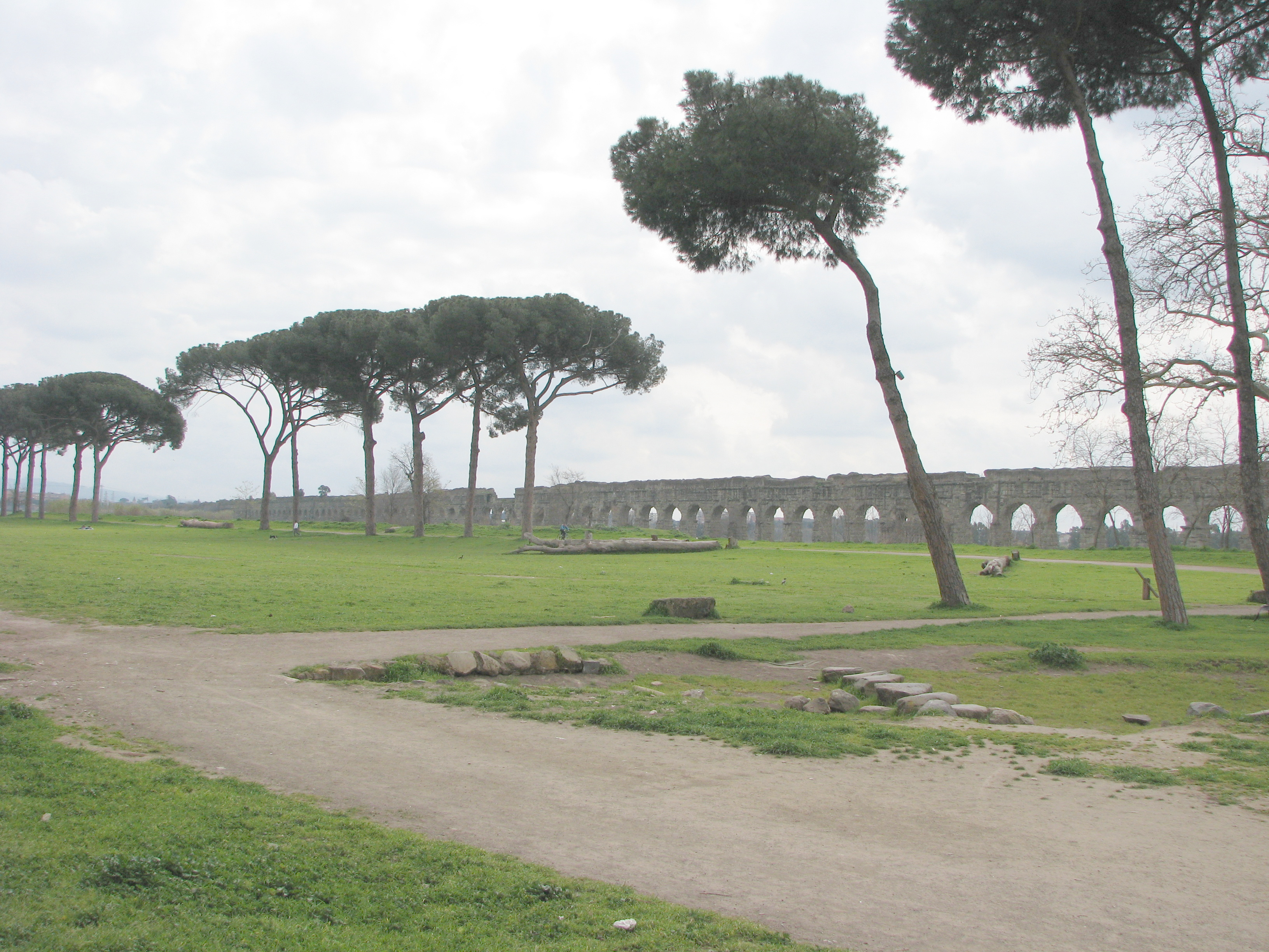 Panoramic view of the Aqua Claudia near Rome, the longest unbroken stretch of an above-ground aqueduct near Via Lemonia, Rome with a length of 1375 m. On top of the Aqua Claudia is the Anio Novus channel